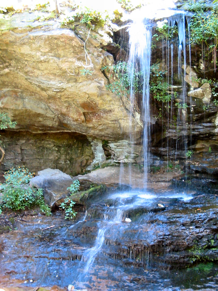 Window Falls - Hanging Rock State Park, NC, taken by uploader, September 2005.